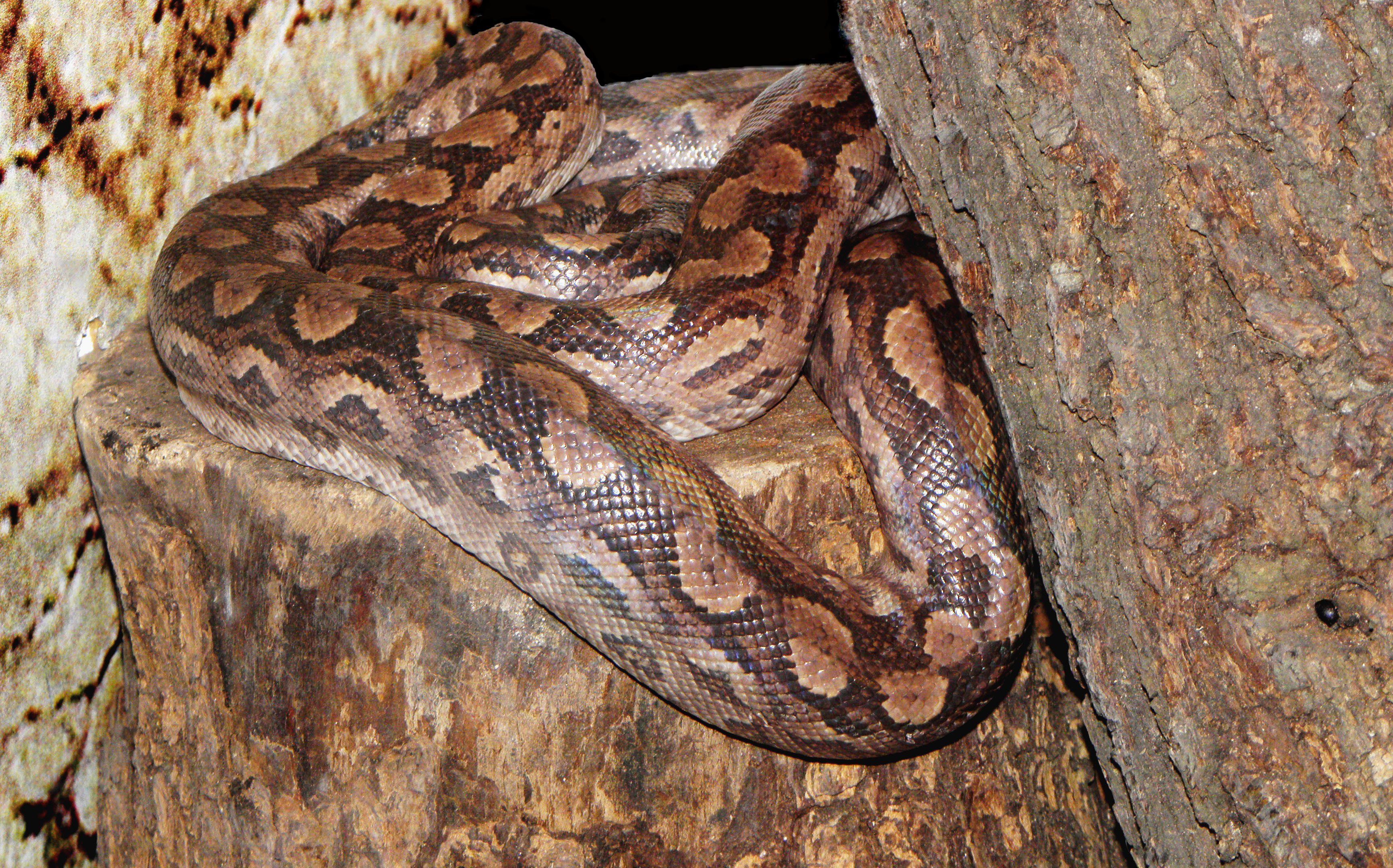 Argentine rainbow boa (Epicrates alvarezi = Epicrates cenchria alvarezi).